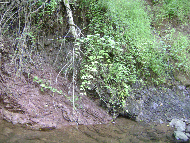 A contact can be seen between Prospect Hill's black basalt lava and underlying red shale of the Passaic Formation near Flemington, New Jersey.